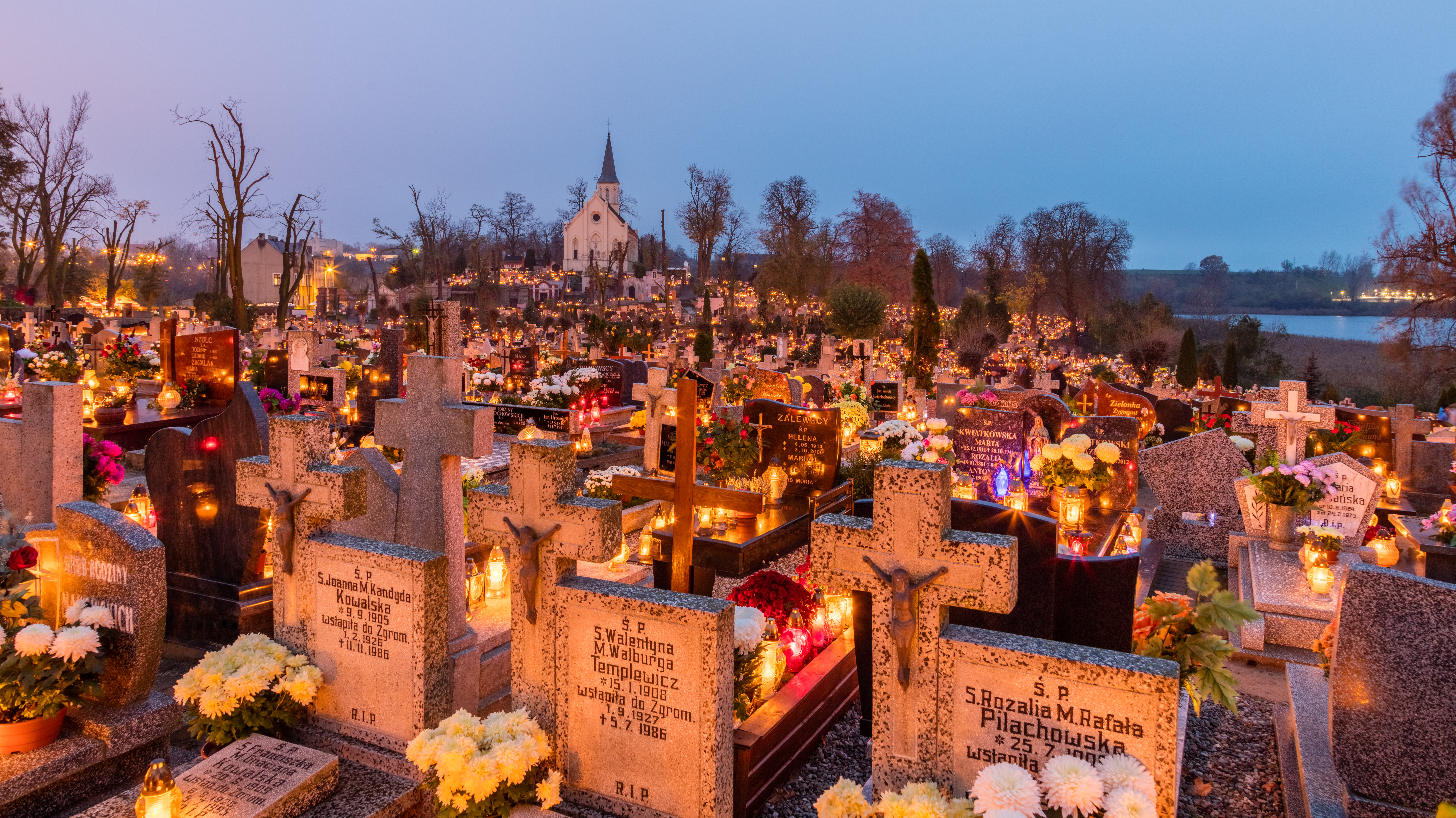 All Saints Day, Holy Cross Cemetery in Gniezno, Poland